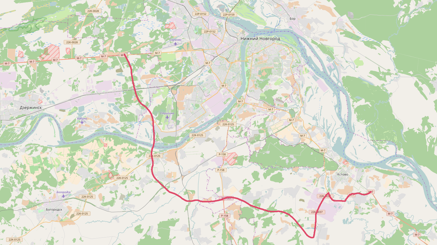 Southern Bypass of Nizhny Novgorod